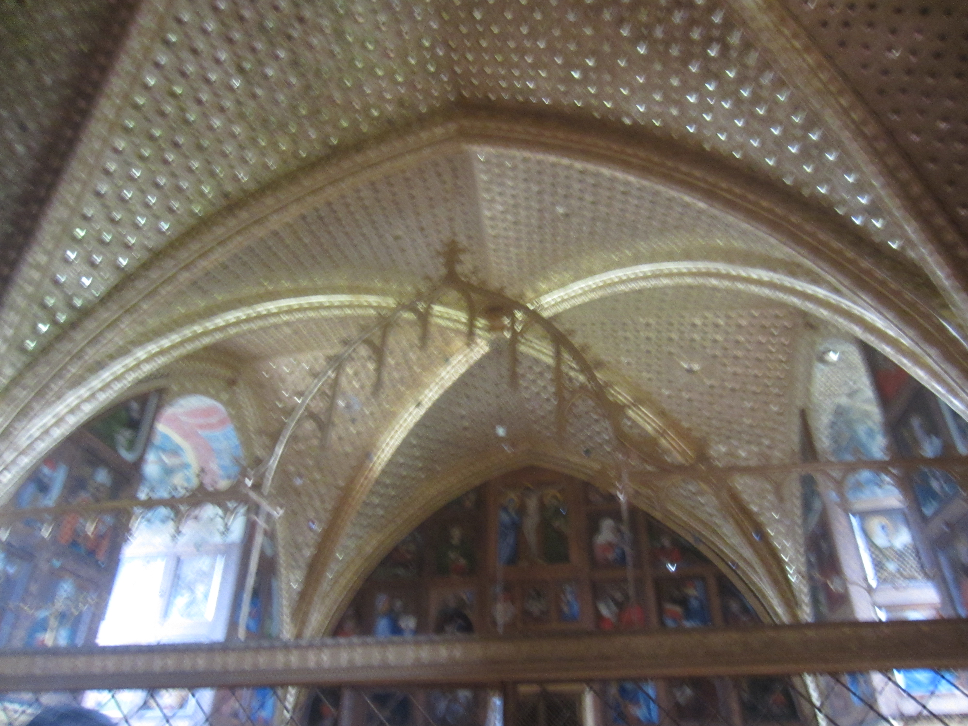 Chapel of the Holy Cross at Karlštejn Castle